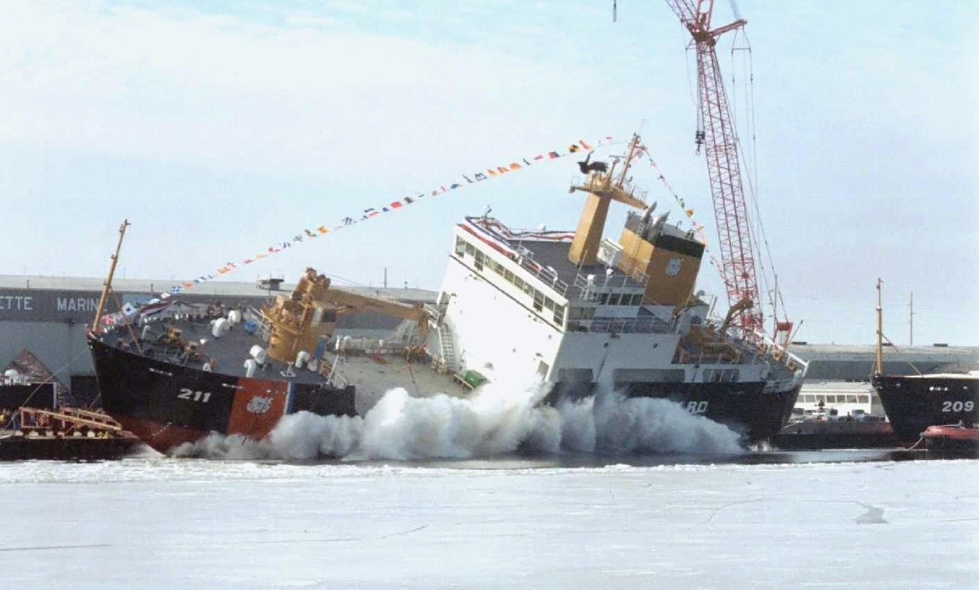 Launch of the Juniper class USCG Buoy Tender Oak - WLB-211.